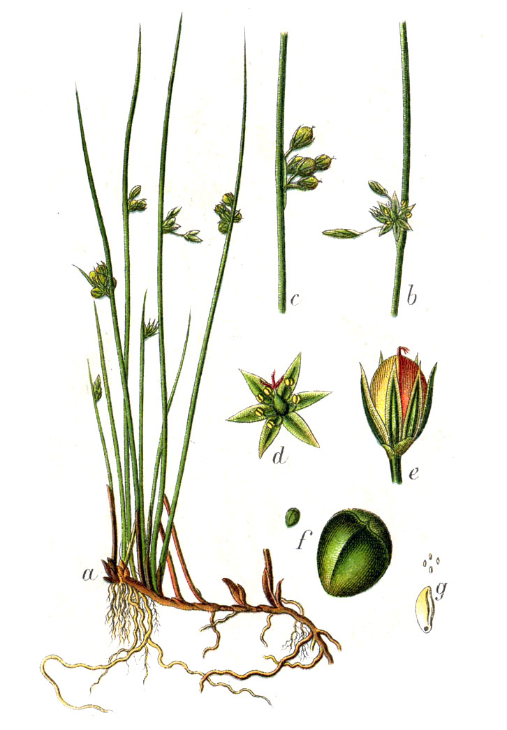 Juncus filiformis L. Original Caption Faden-Binse, Juncus filiformis